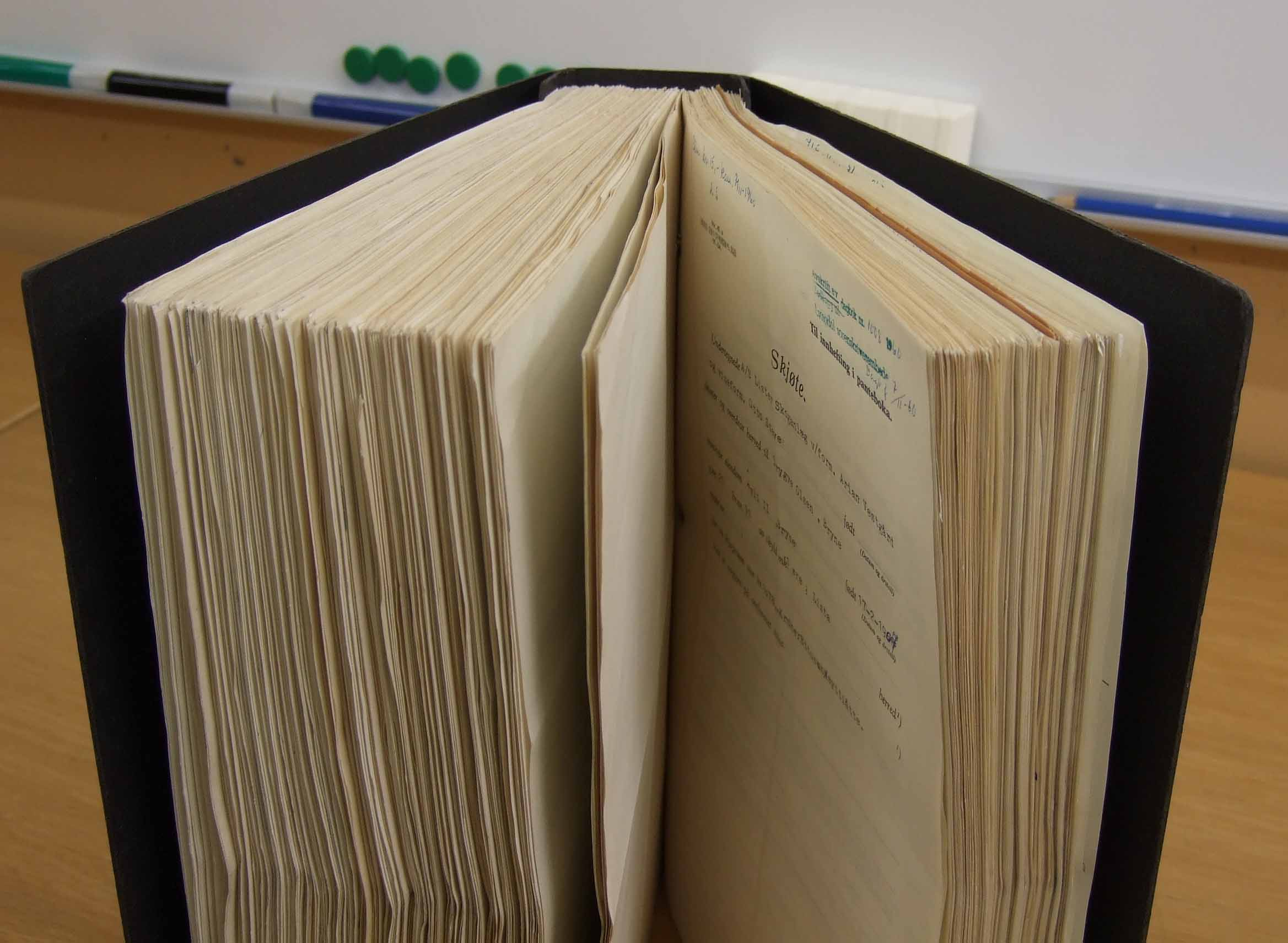 Mortgage book, from Norway